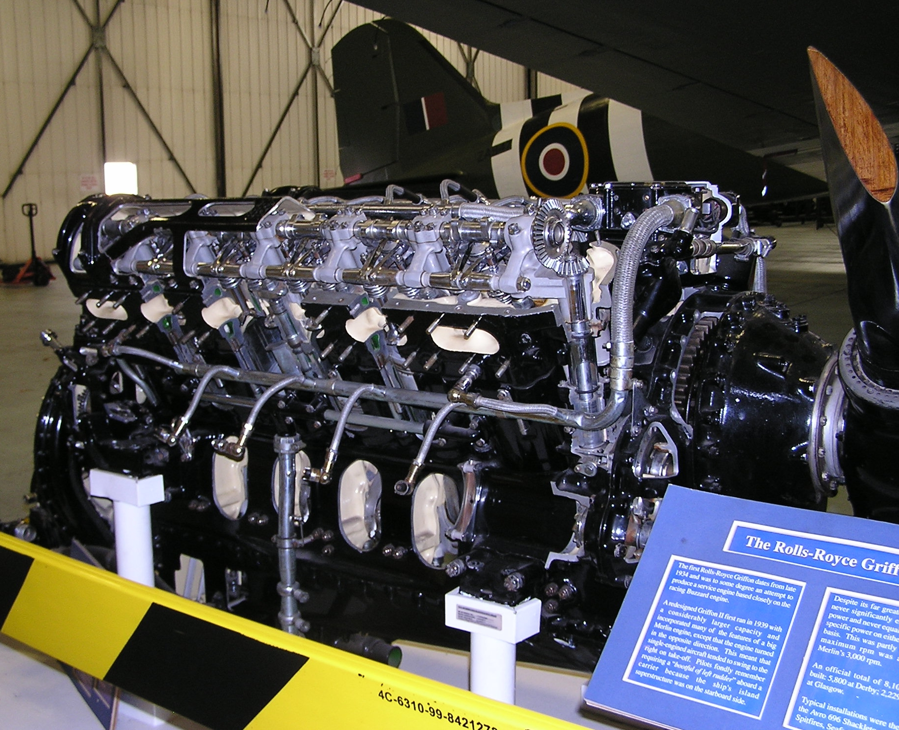 Griffon, sectioned to show camshaft drive etc at the BBM Museum, RAF Conningsby